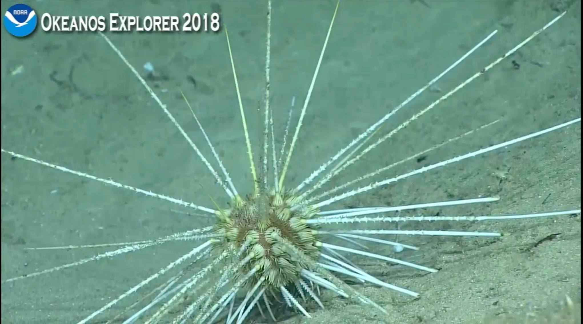 Histocidaris cf. nuttingi observed by NOAA Okeanos Explorer at 327 m deep off Puerto Rico (Bajo de Sico).